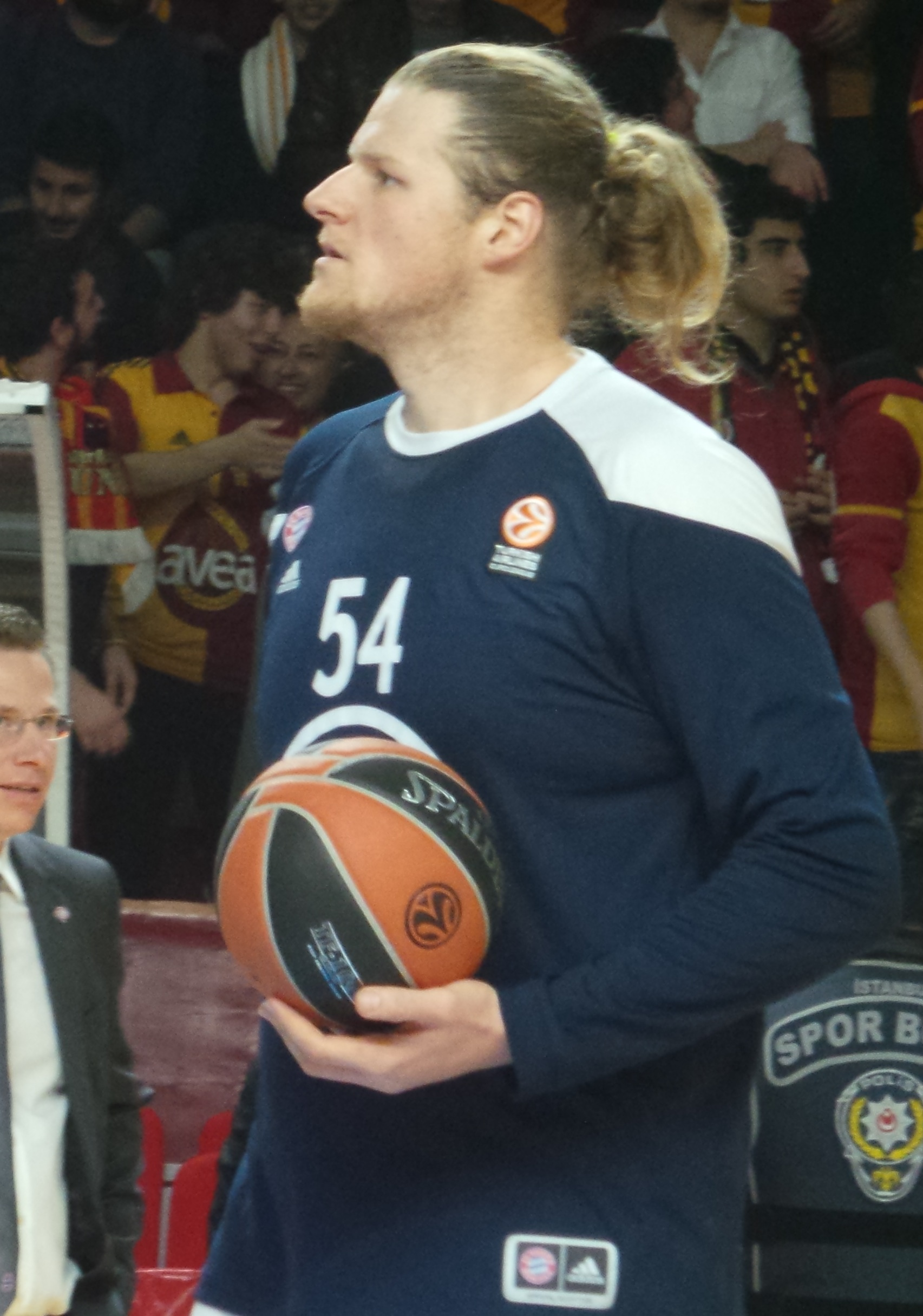 John Bryant'13